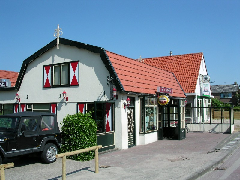 Café's in het dorp Julianadorp. Bars in the village of Julianadorp.